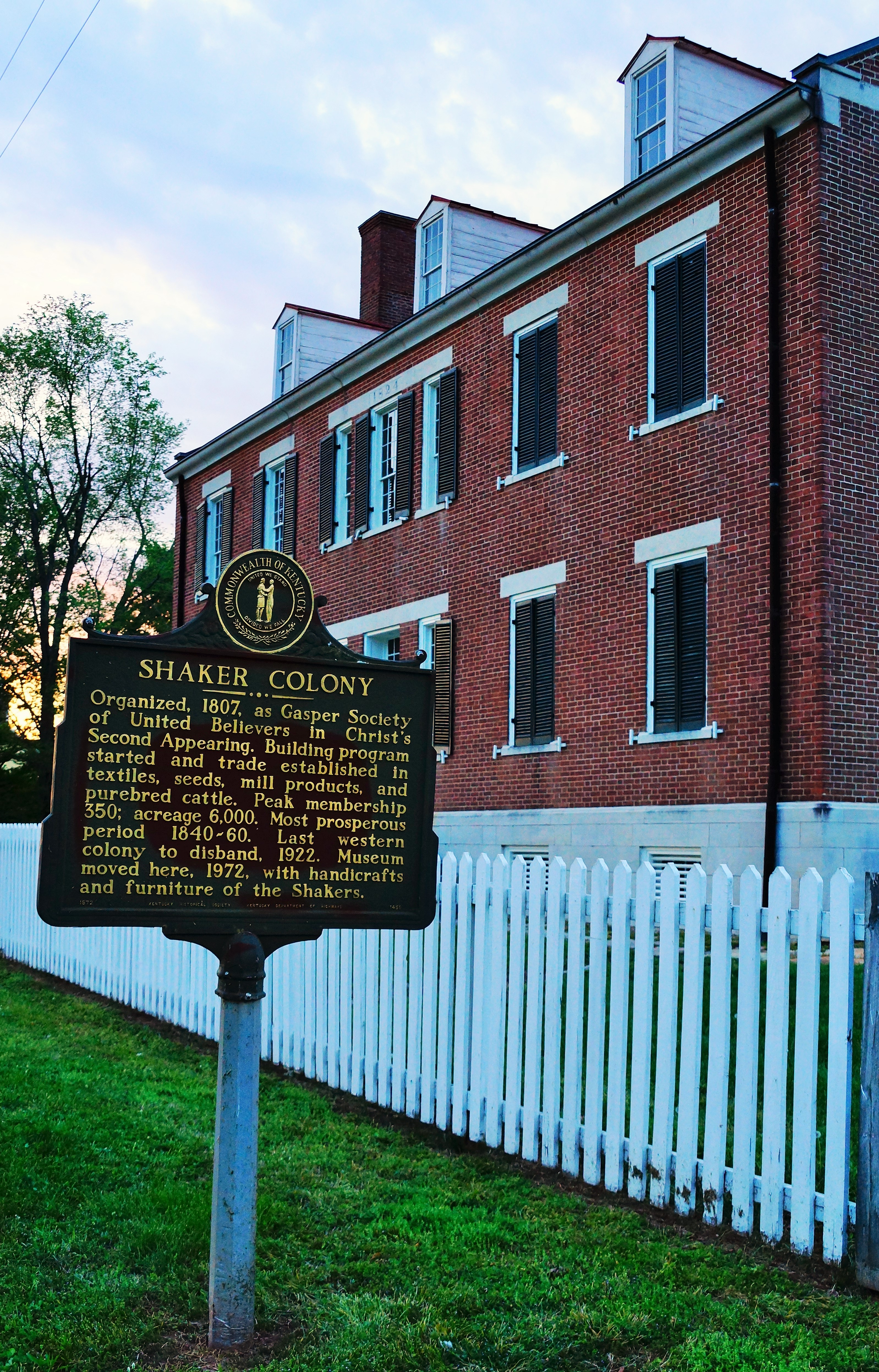 The primary Shaker dwelling at South Union.